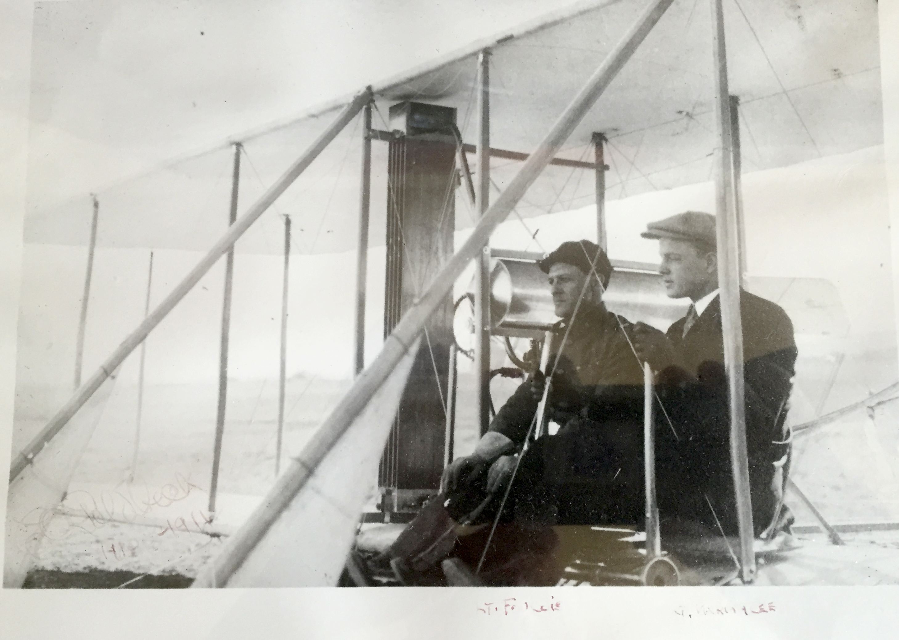 As described in the WIKI paragraph, this vintage photo of Foulois & Parmelee at Ft Sam Houston Texas - c. March 1910 was taken by noted San Antonio panorama photographer, E. O. Goldbeck and was signed and given to me in 1981. Goldbeck went to nearby Ft. Sam Houston to preserve this image for posterity.